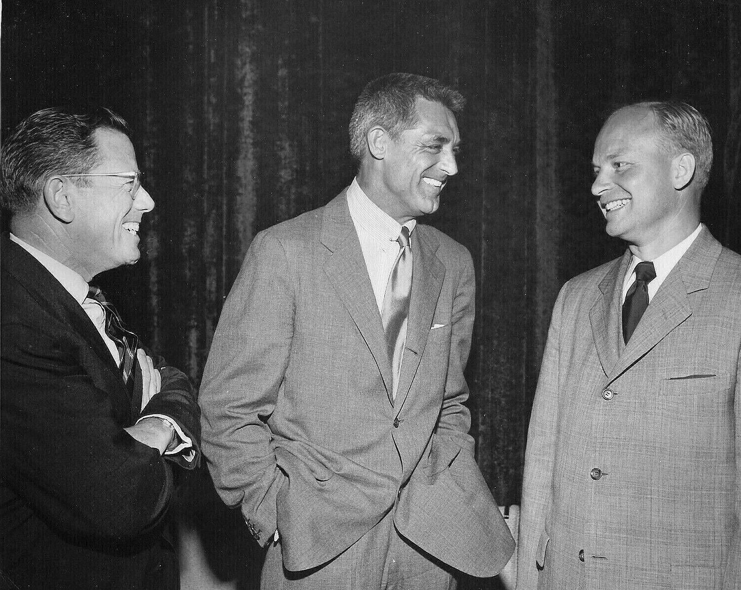 Cary Grant in NBC Radio (1940s)